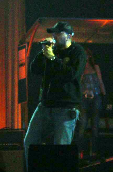 Picture of Max Pezzali during 2007 Tour